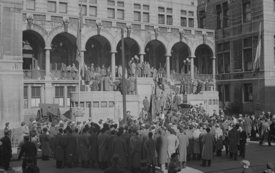 We see a lot of students from the University of Montreal, gathered outside the building of the University, Saint-Denis in Montreal, during the opening day of the session.